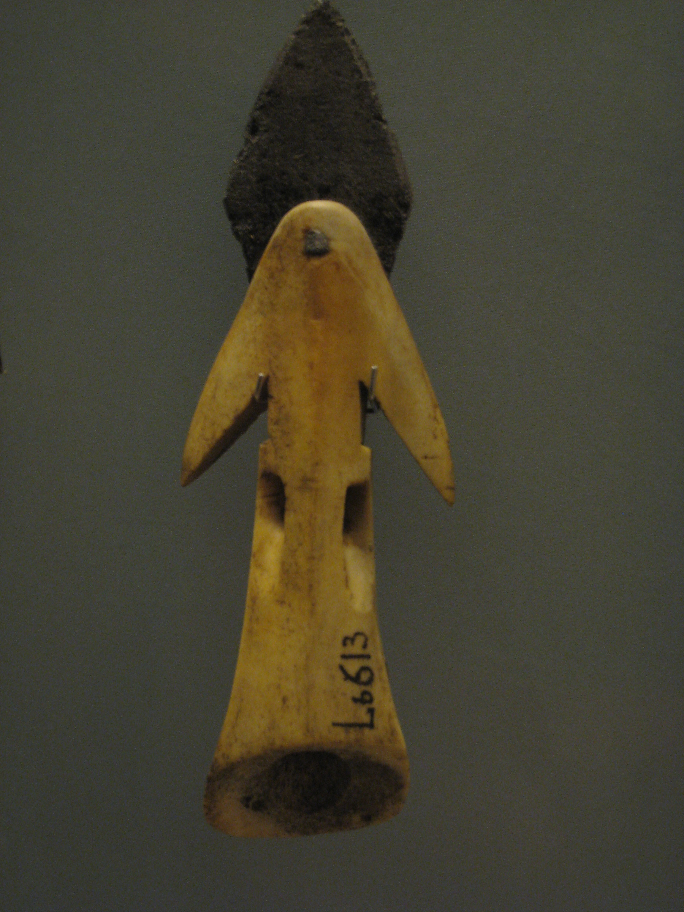 Inuit harpoon head